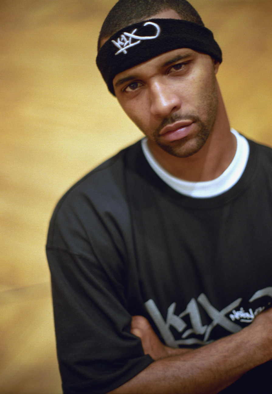 Joe Budden in Berlin/Germany 2003